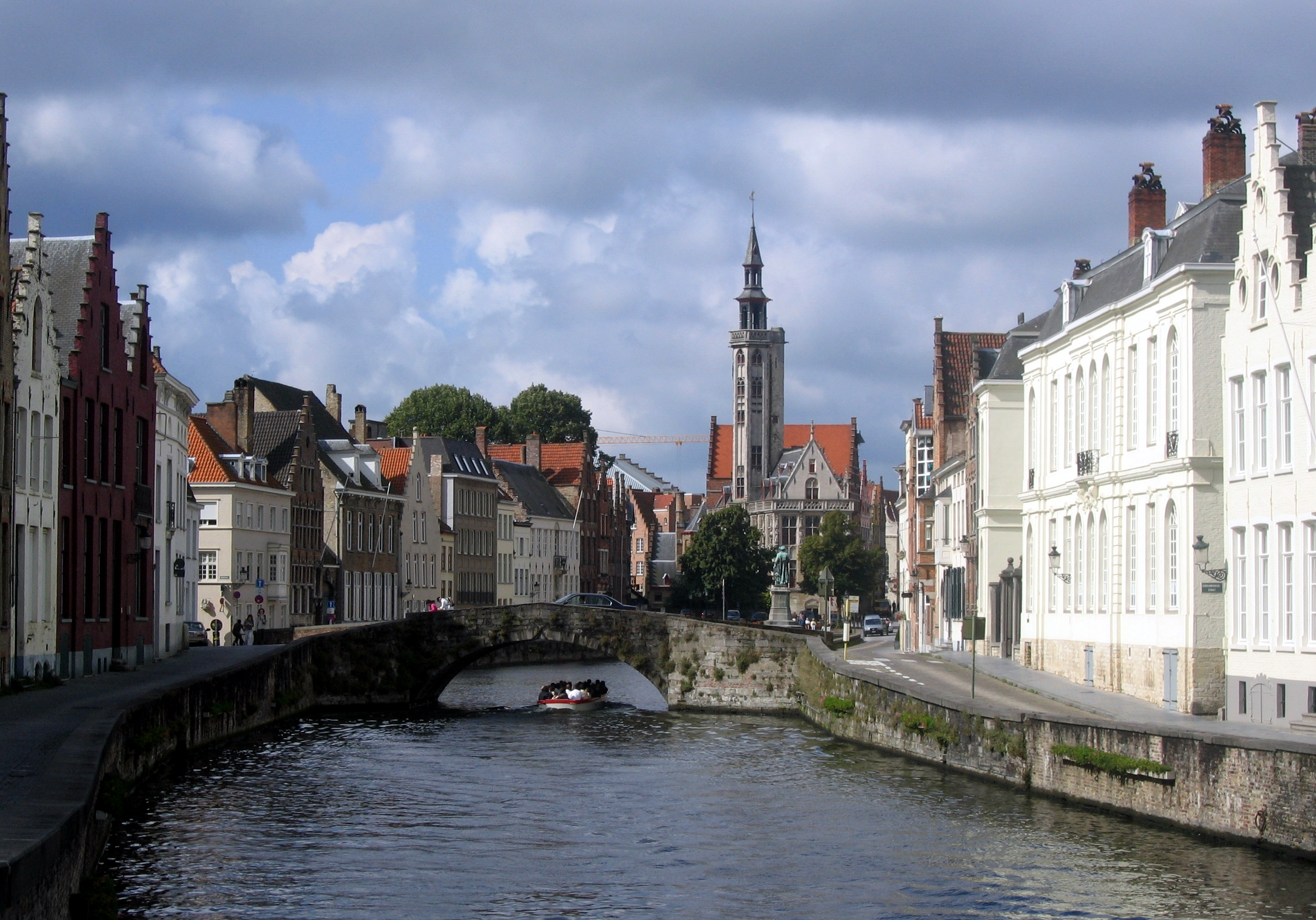 Spinolarei en Spiegelrei canals in Brugge; in the background the "Poortersloge" (burgher's lodge). Brugge, West Flanders, Belgium